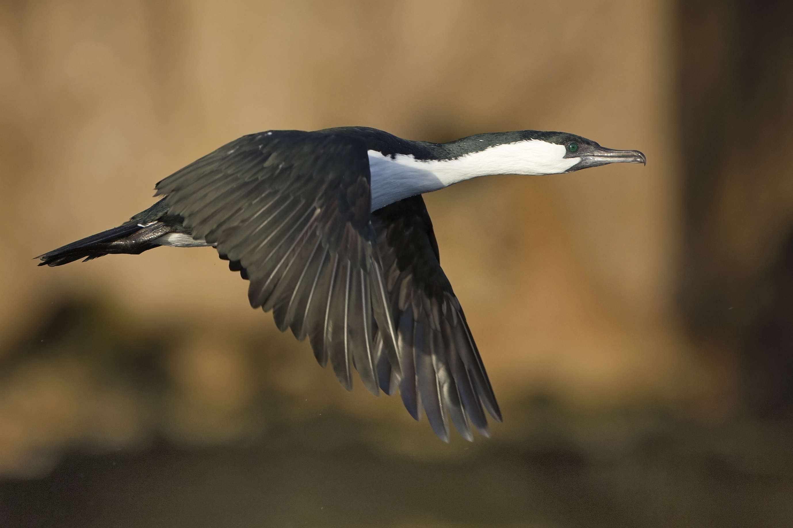 Black-faced Cormorant (Phalacrocorax fuscescens) near Hippolyte Rocks east of the Tasman Peninsula, Tasmania, Australia.